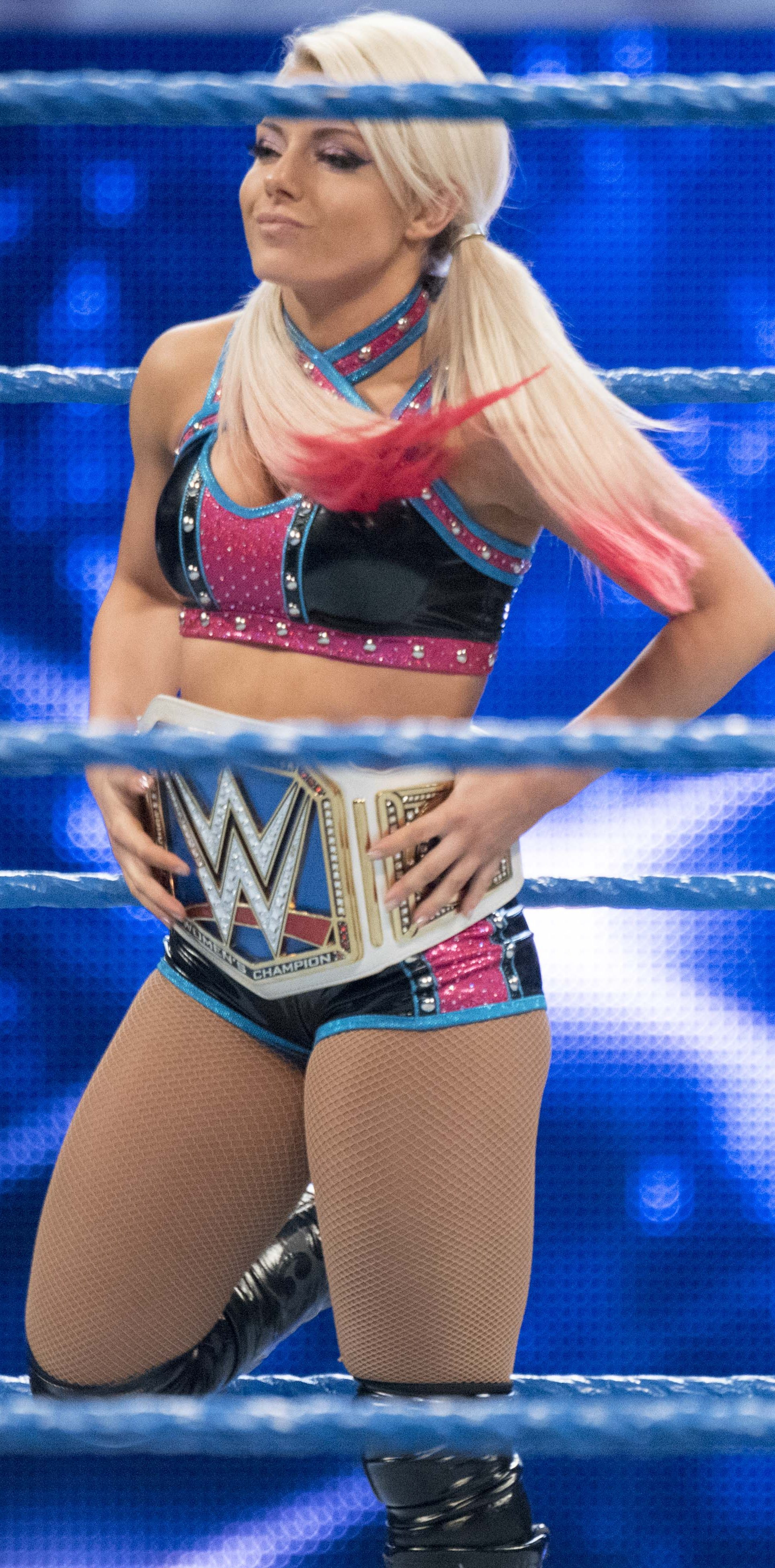 WWE performer Alexa Bliss participates in the 14th Annual Tribute to the Troops Event at the Verizon Center in Washington, D.C., Dec. 13, 2016. WWE Tribute to the Troops is an annual event held by WWE and Armed Forces Entertainment in December during the holiday season since 2003, to honor and entertain United States Armed Forces members. WWE performers and employees travel to military camps, bases and hospitals, including the Walter Reed Army Medical Center and Bethesda Naval Hospital. DoD Photo by Navy Petty Officer 2nd Class Dominique A. Pineiro